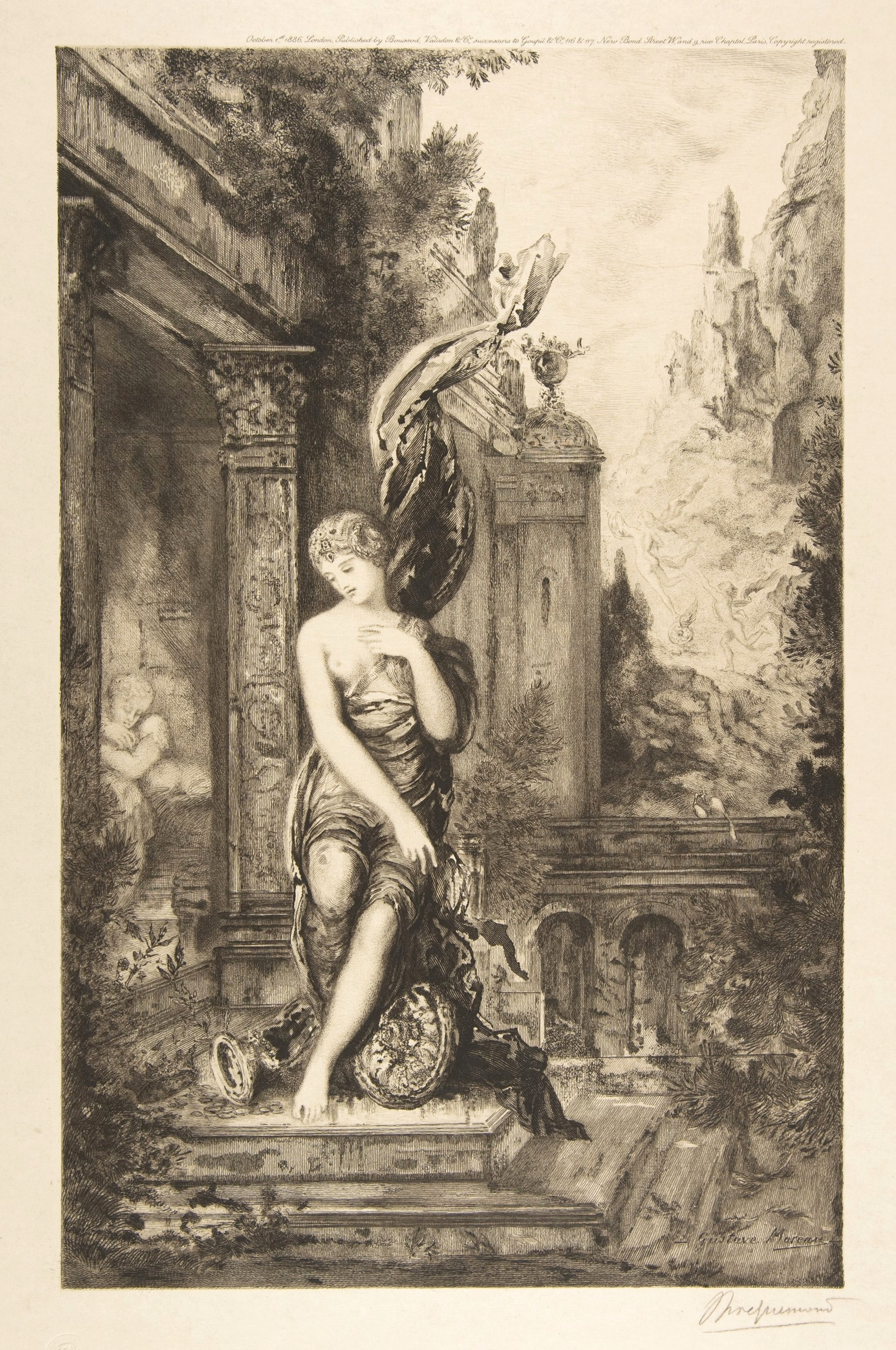 Felix Bracquemond's engraving for the ending of La Fontaine's fable of "The man who ran after fortune", based on a painting by Gustave Moreau. Location Metropolitan Museum of Art